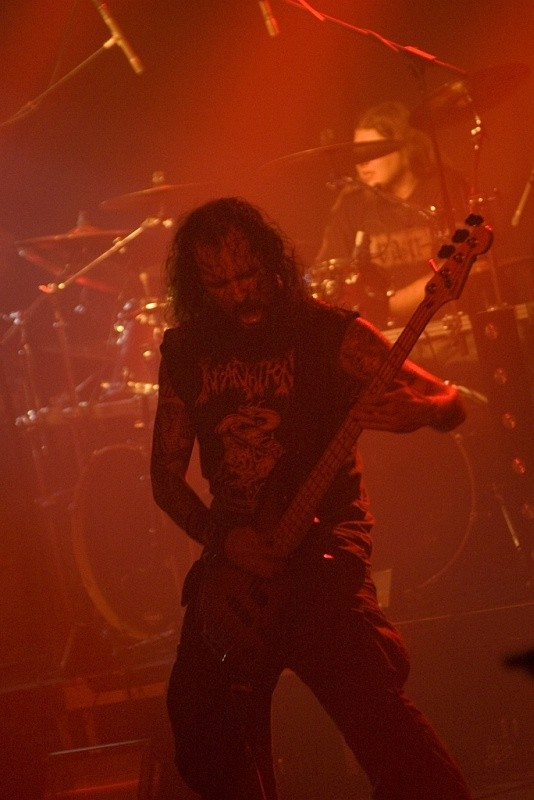 Winterfest 2009, Vader, Warszawa, Progresja, 22.01.2009